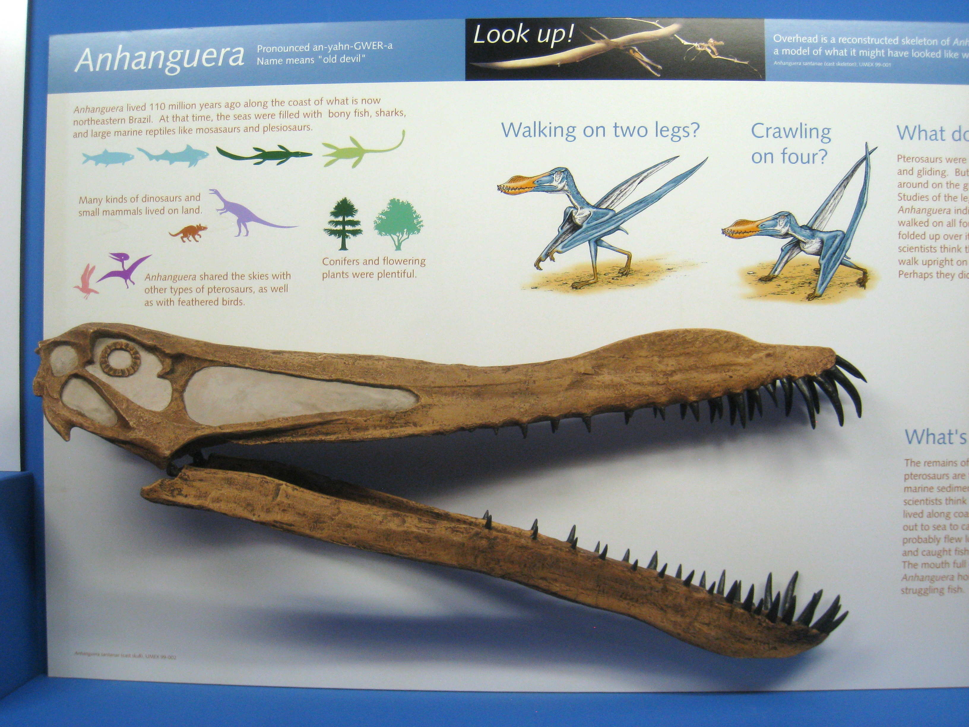 Anhanguera skull. Exhibit Museum of Natural History, University of Michigan, 1109 Geddes Avenue, Ann Arbor, Michigan, USA.